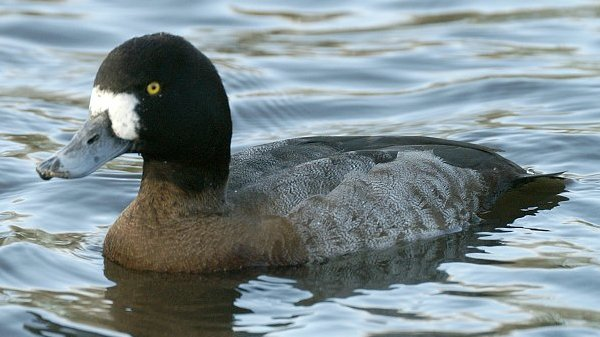 New Zealand Scaup (Aythya novaeseelandiae) This image was created by Ken Billington. If you are interested in a high resolution copy of this image, please contact the author Ken Billington in order to negotiate conditions of use. Do not copy this image illegally by ignoring the terms of the license below, as it is not in the public domain. If you would like special permission to use, license, or purchase the image please contact me to negotiate terms. More free images can be found on Ken Billington's Bird & Wildlife Photography.